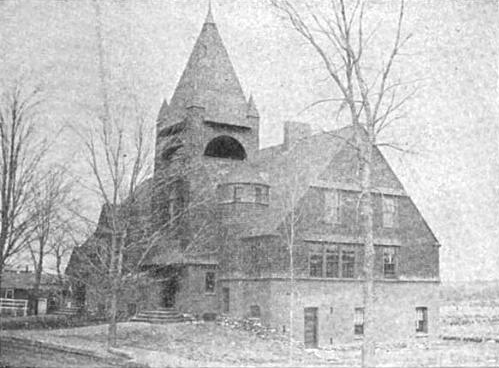 Reuben Hoar Library, Littleton, Massachusetts